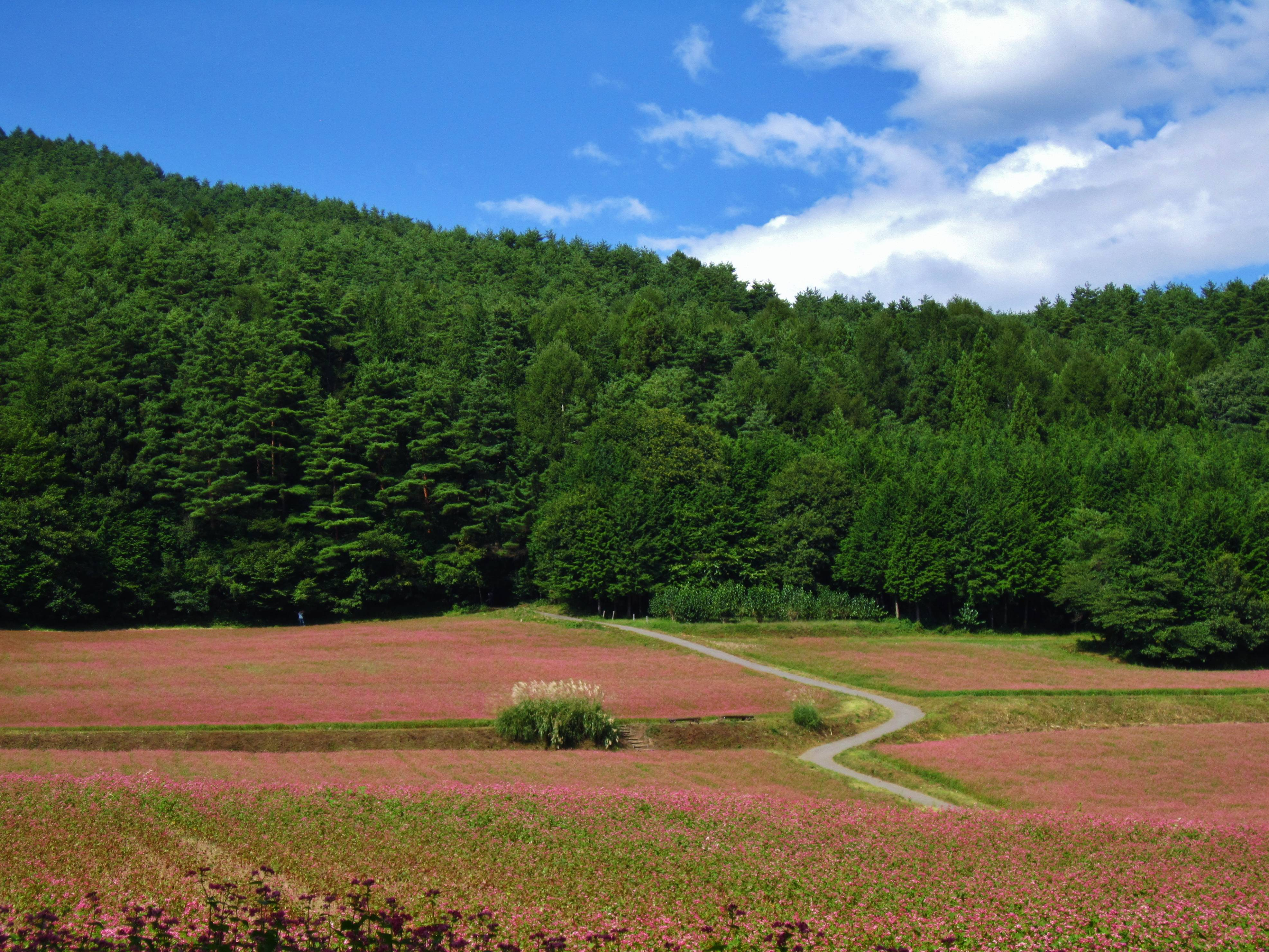 Akasoba-no-sato.